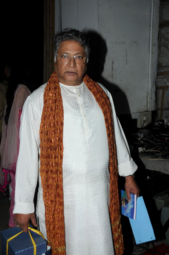 Vikram Gokhale at 70th Master Dinanath Mangeshkar Awards